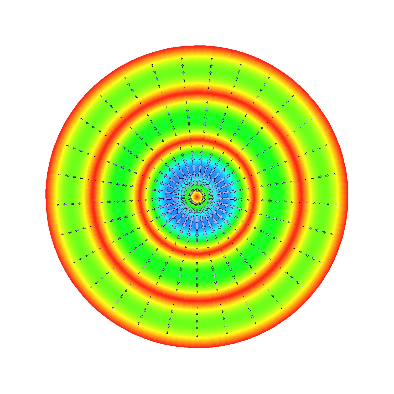 Plot of E and H fields on the TEnl mode defined by n and l